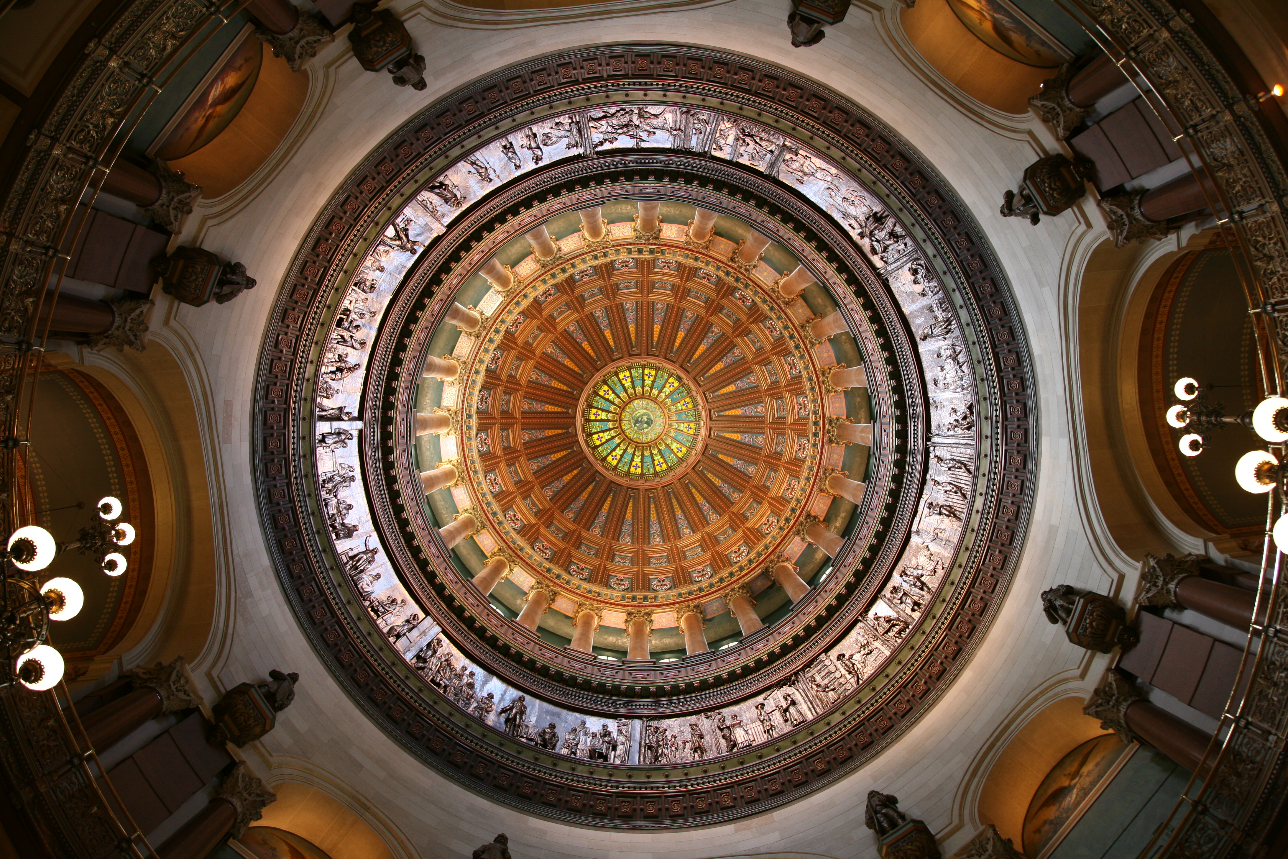 Illinois State Capitol dome from below